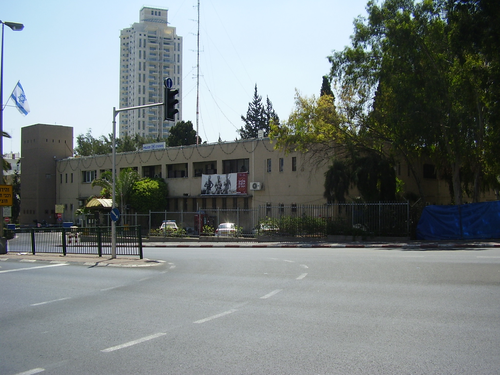 Police station in Ramat-gan, Israel. demolish in 2018.